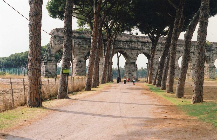 Acqueduct Park Rome